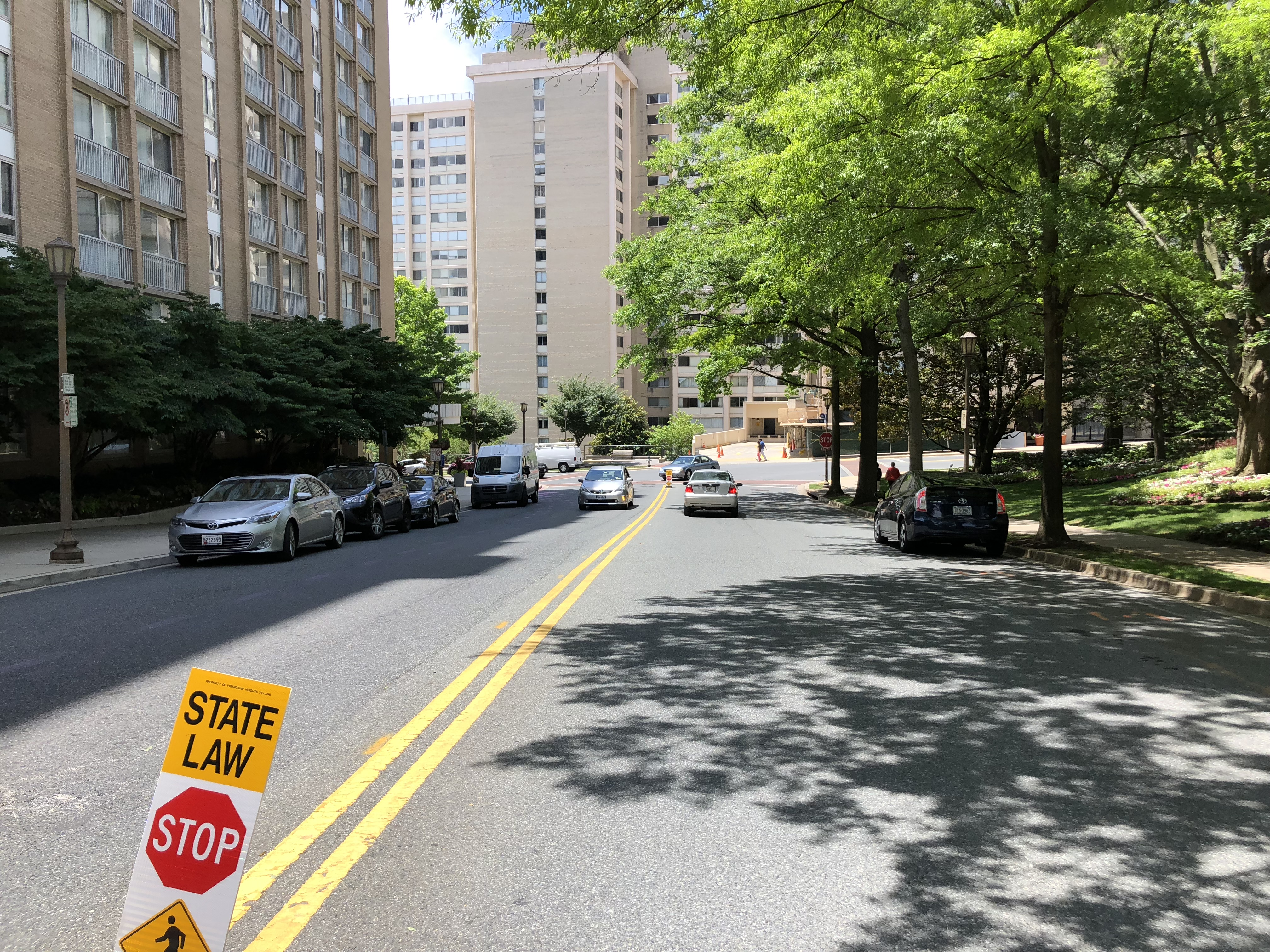 View west along South Park Avenue at The Hills Plaza in Friendship Heights, Montgomery County, Maryland